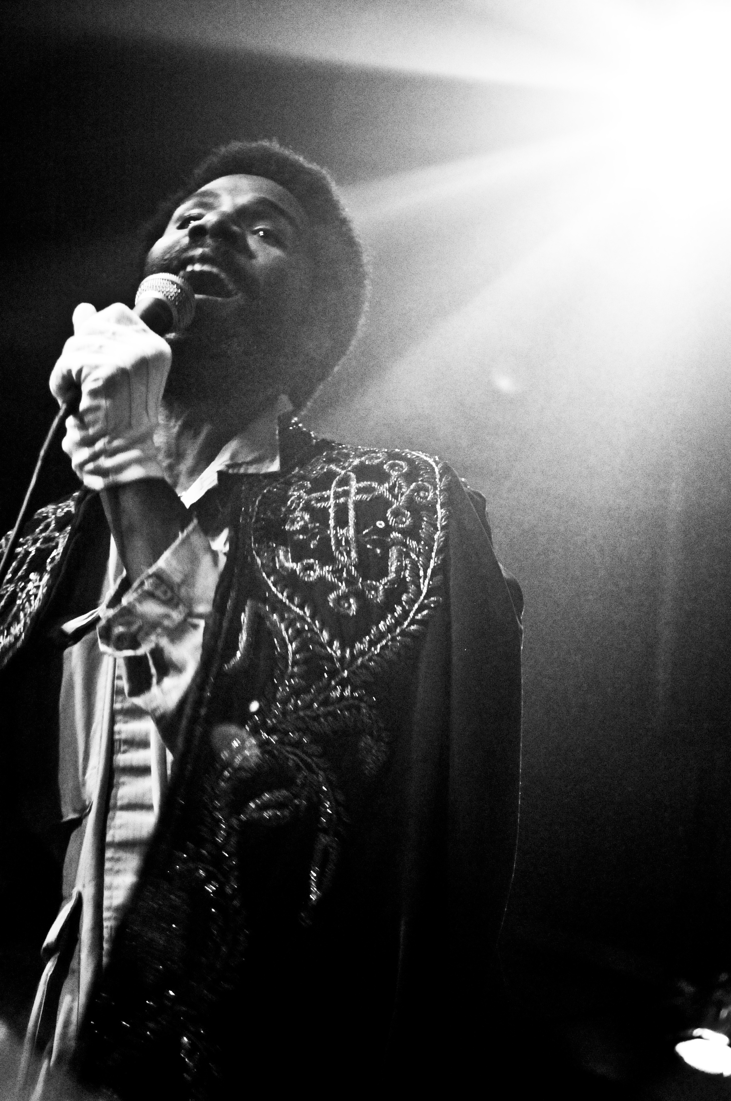 Cody Chesnutt performing at Martin Luther's Rebel Soul Fest in San Francisco, July 2008.